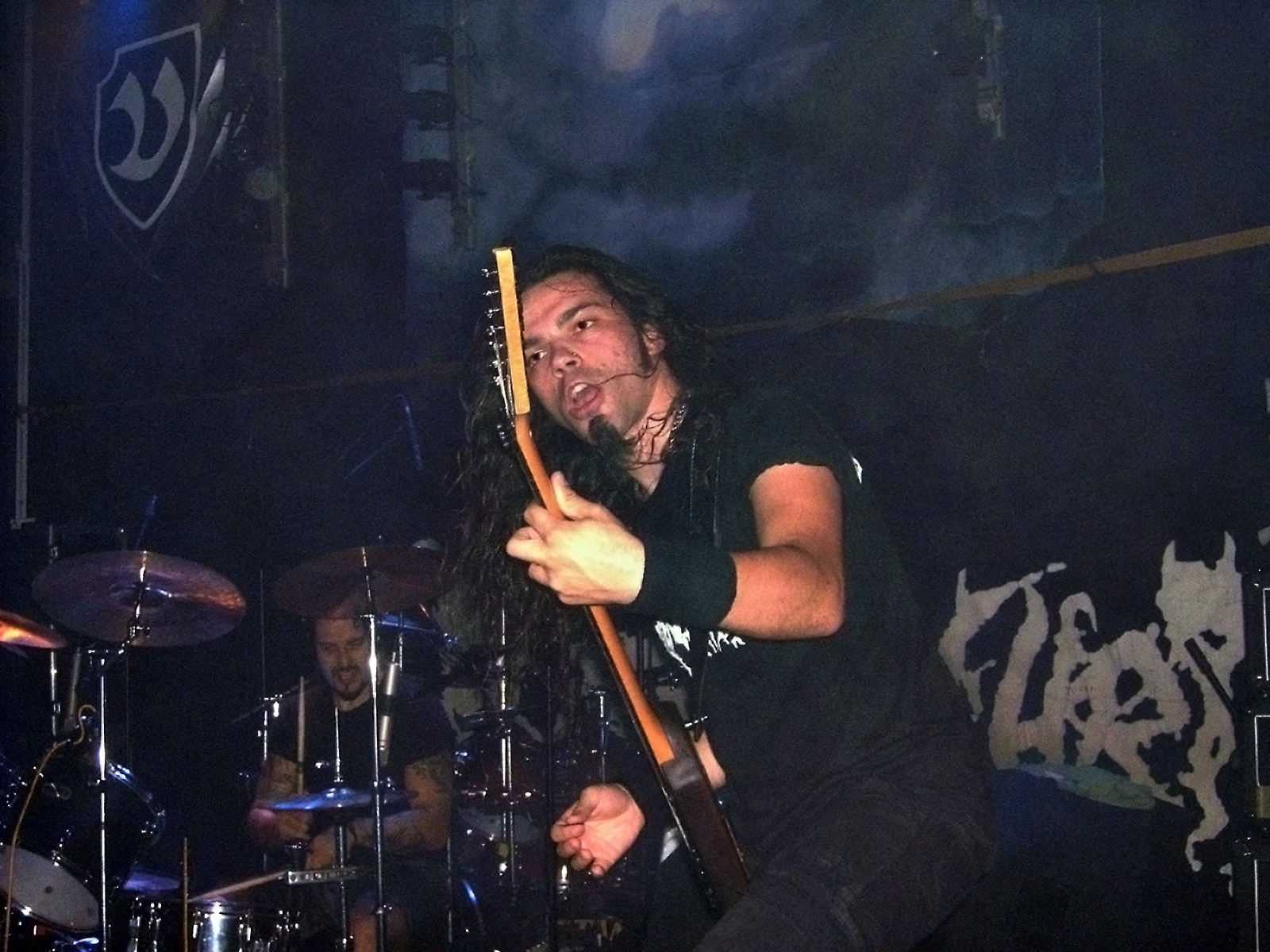 Rotting Christ a black metal band playing live on tour with Vader in Poland